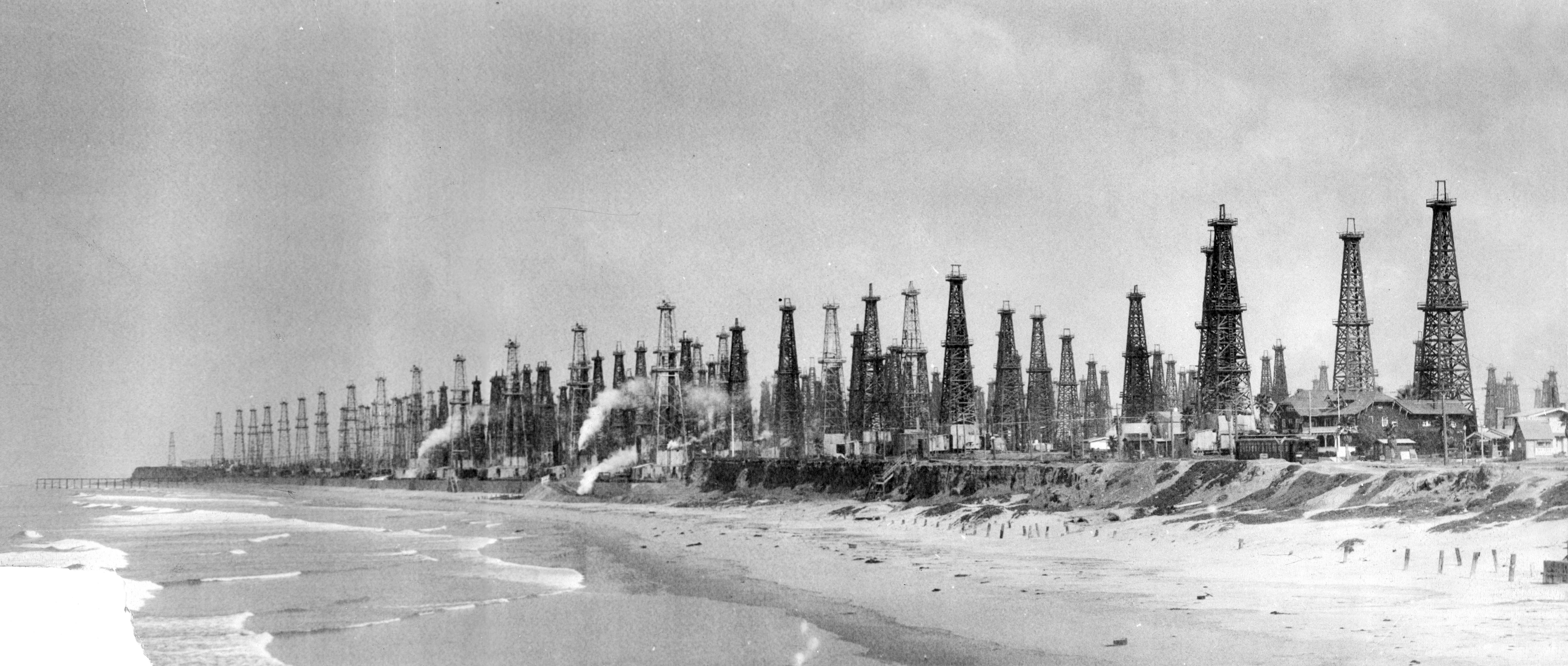 View up the coast from the Huntington Beach Pier. Note the Pacific Electric "Red Car" passing in front of the old Huntington Inn. There are no known copyright restrictions on this image. All future uses of this photo should include the courtesy line, "Photo courtesy Orange County Archives." Comments are welcome after reading our Comment Policy . Photo from the Barbara K. Milkovich Collection.